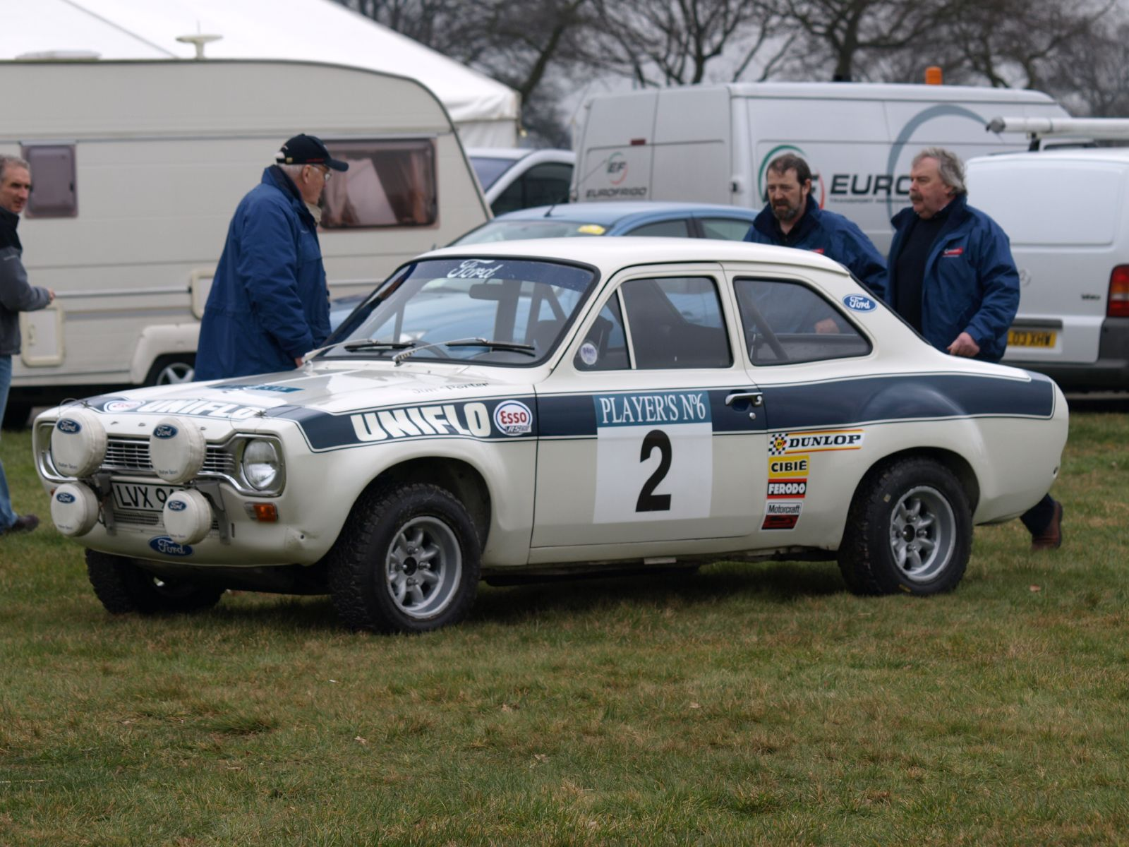 Roger Clark's Ford Escort RS1600, 1972 RAC Rally winning, at Race Retro 2008, the International Historic Motorsport Show, at Stoneleigh Park, Coventry, England.